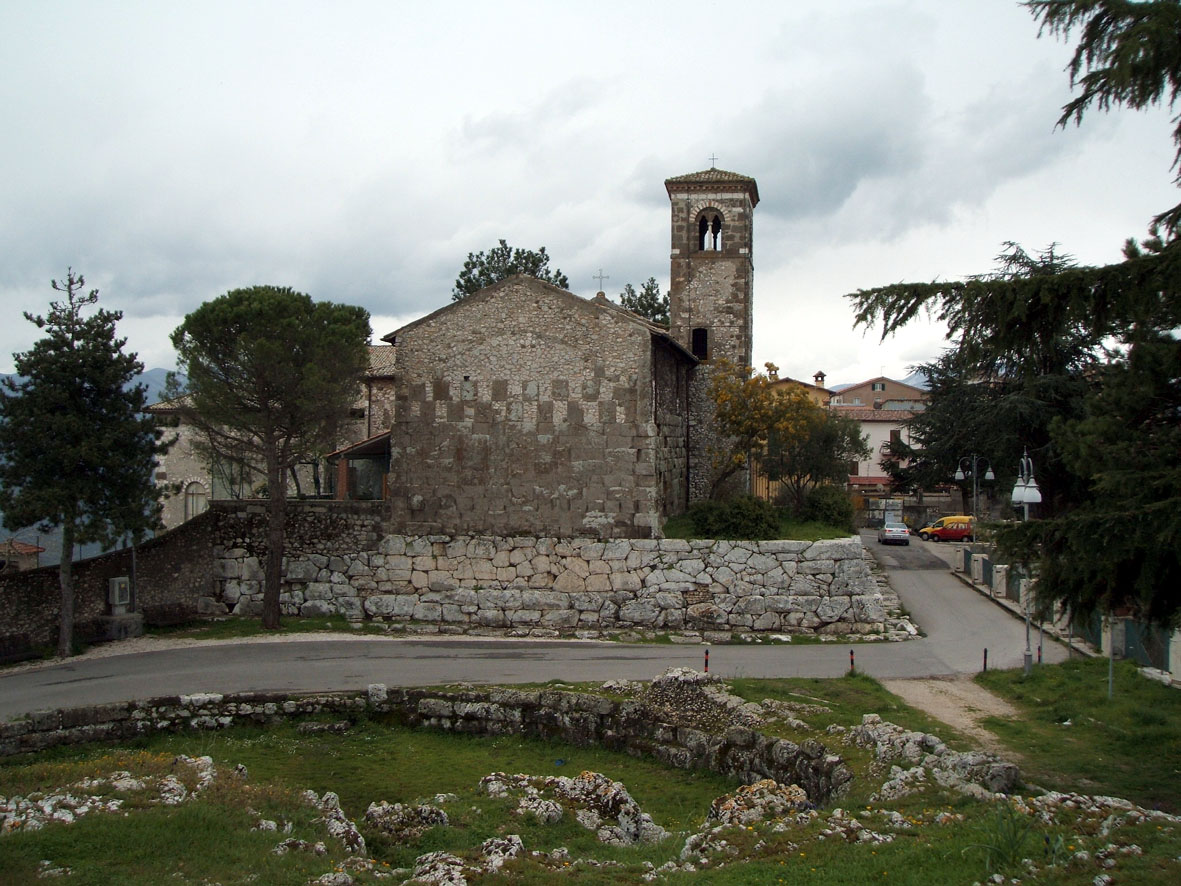 Segni, Province of Rome, Italy, San Pietro